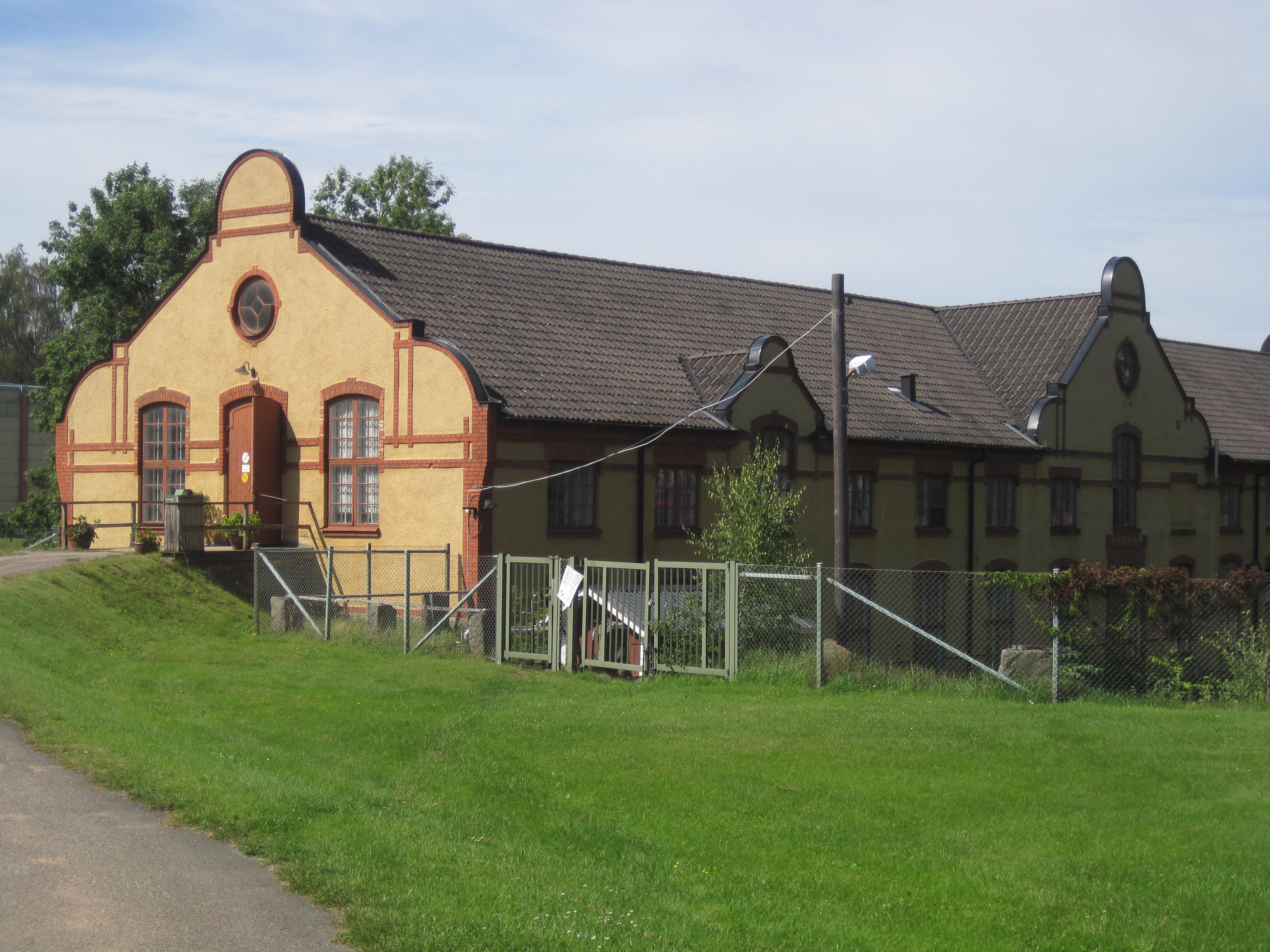 The shop and exhibition building at Lessebo Handpappersbruk ("Lessebo Hand Paper Mill"), a paper mill in Lessebo, Sweden.